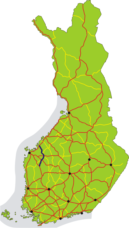 Map of the main road (highway) 19 in Finland, shown in dark blue. The other 1st class main roads (numbers 1–29) are red, 2nd class main roads (numbers 40–98) yellow. Black dots show the 12 biggest urban areas.